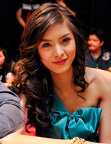 Kim Chiu as as photographed by Ronn Tan, April 2010.